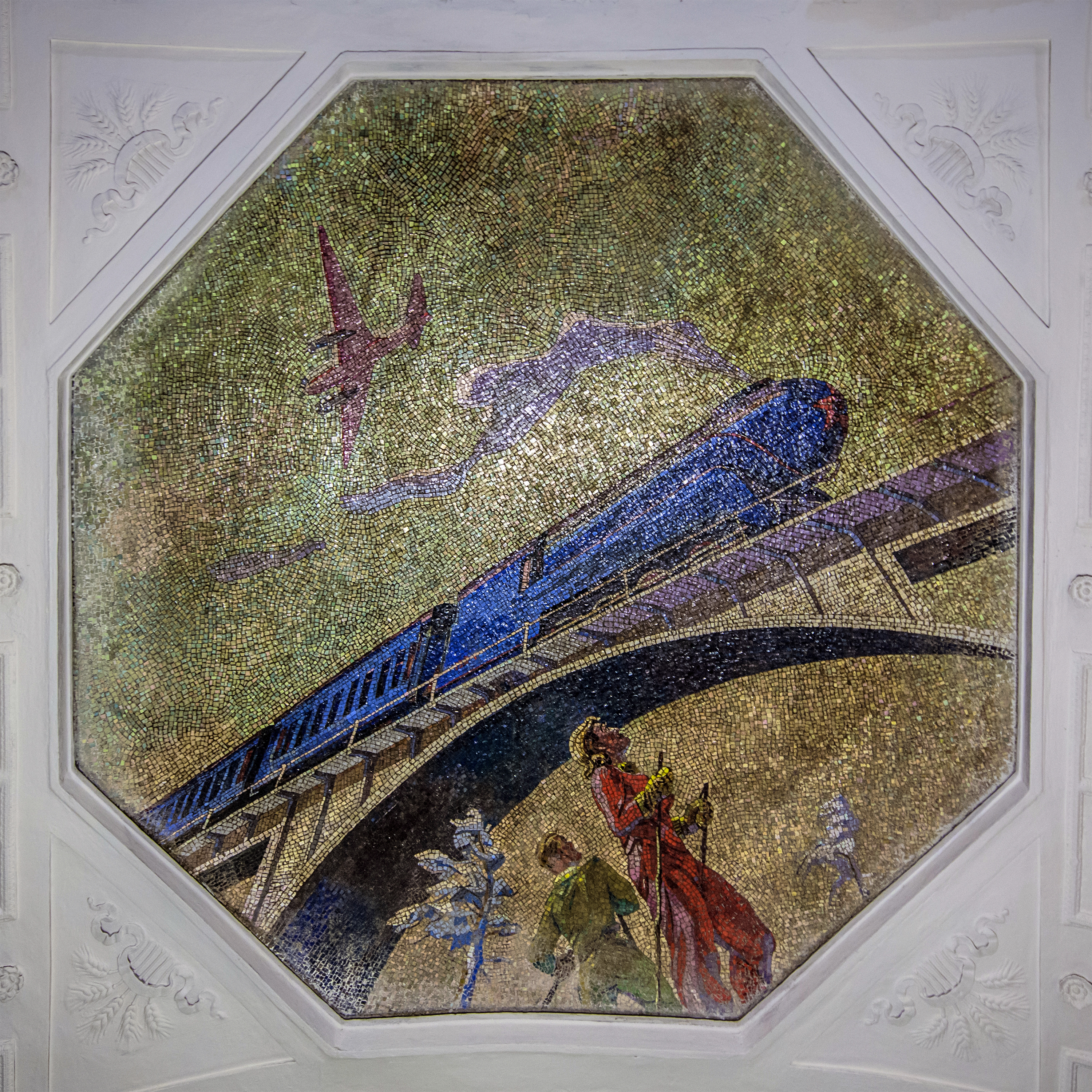 Novokuznetskaya Station of Moscow Subway. Ceiling Mosaic "The Skiers", 1942